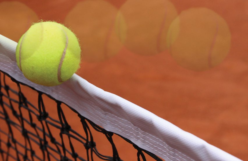 tennis